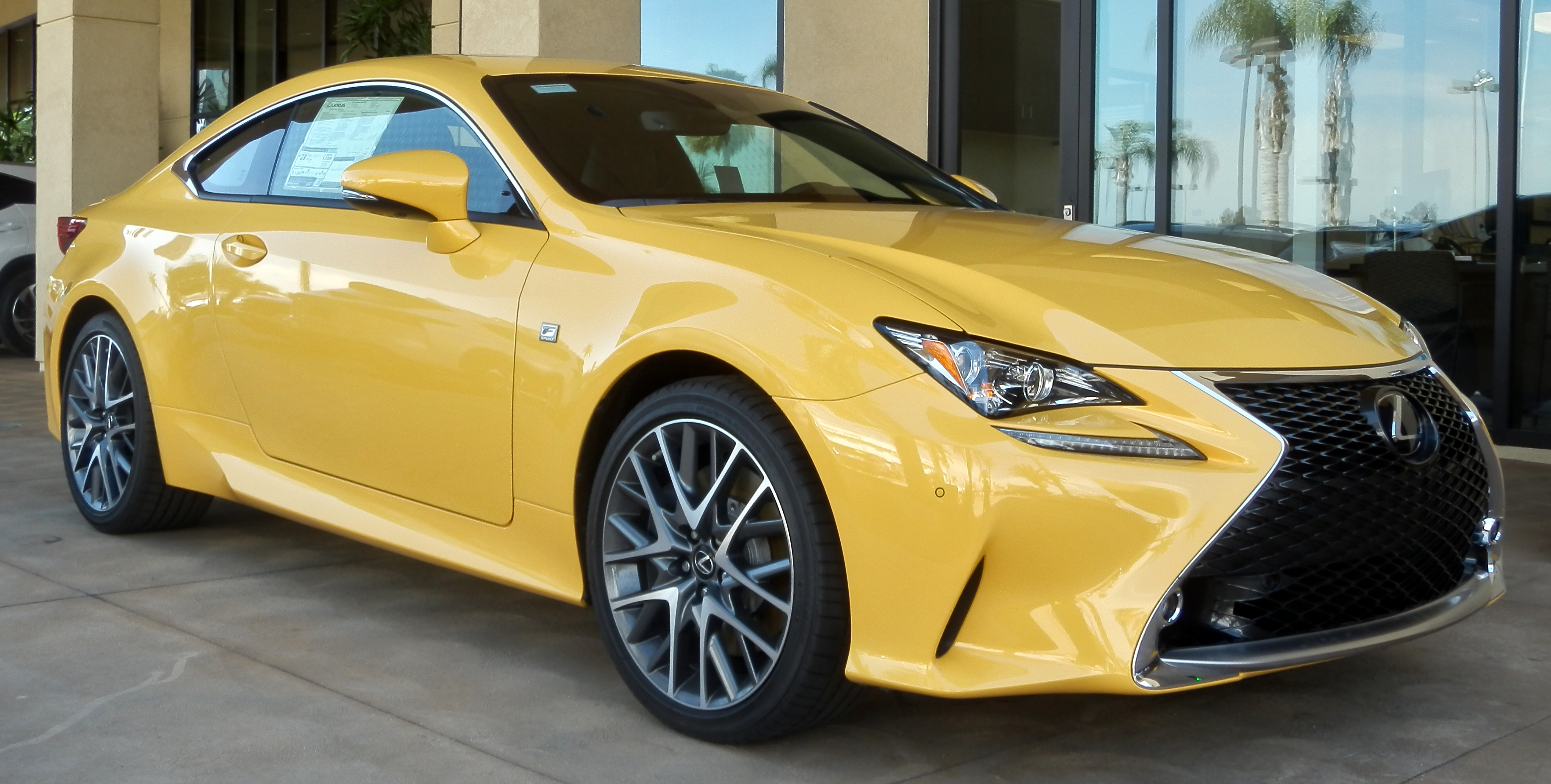 Lexus RC 350 in Bakersfield